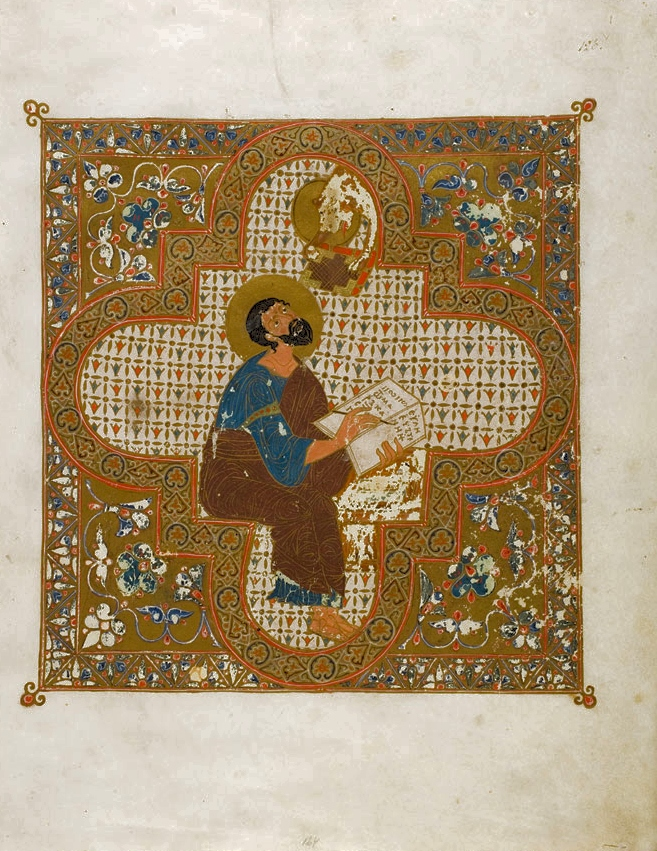 Ostromir Gospels. Miniature of Mark the Evangelist. f. 126